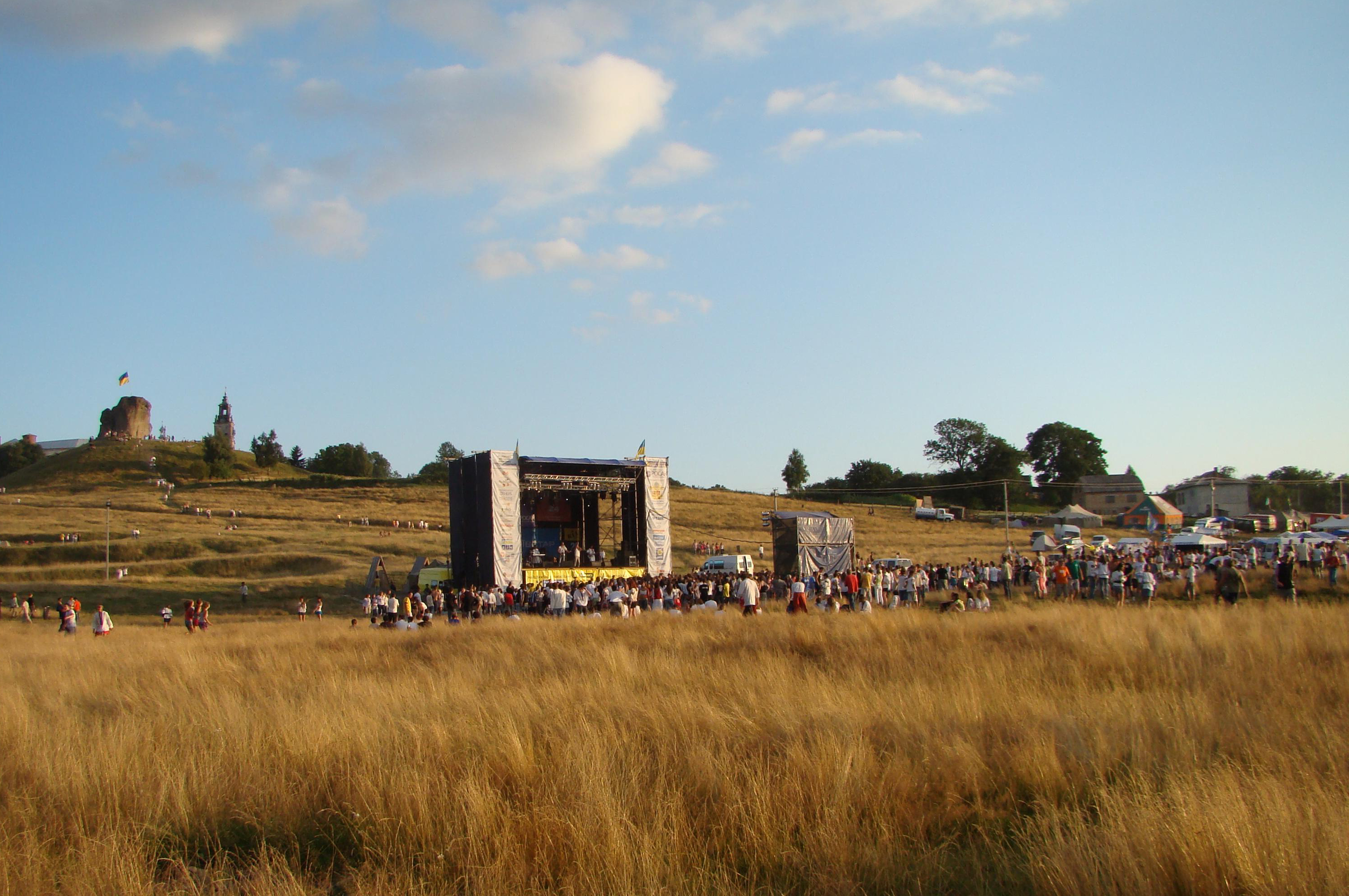 "Pidkamiń" festival 2009 on evening